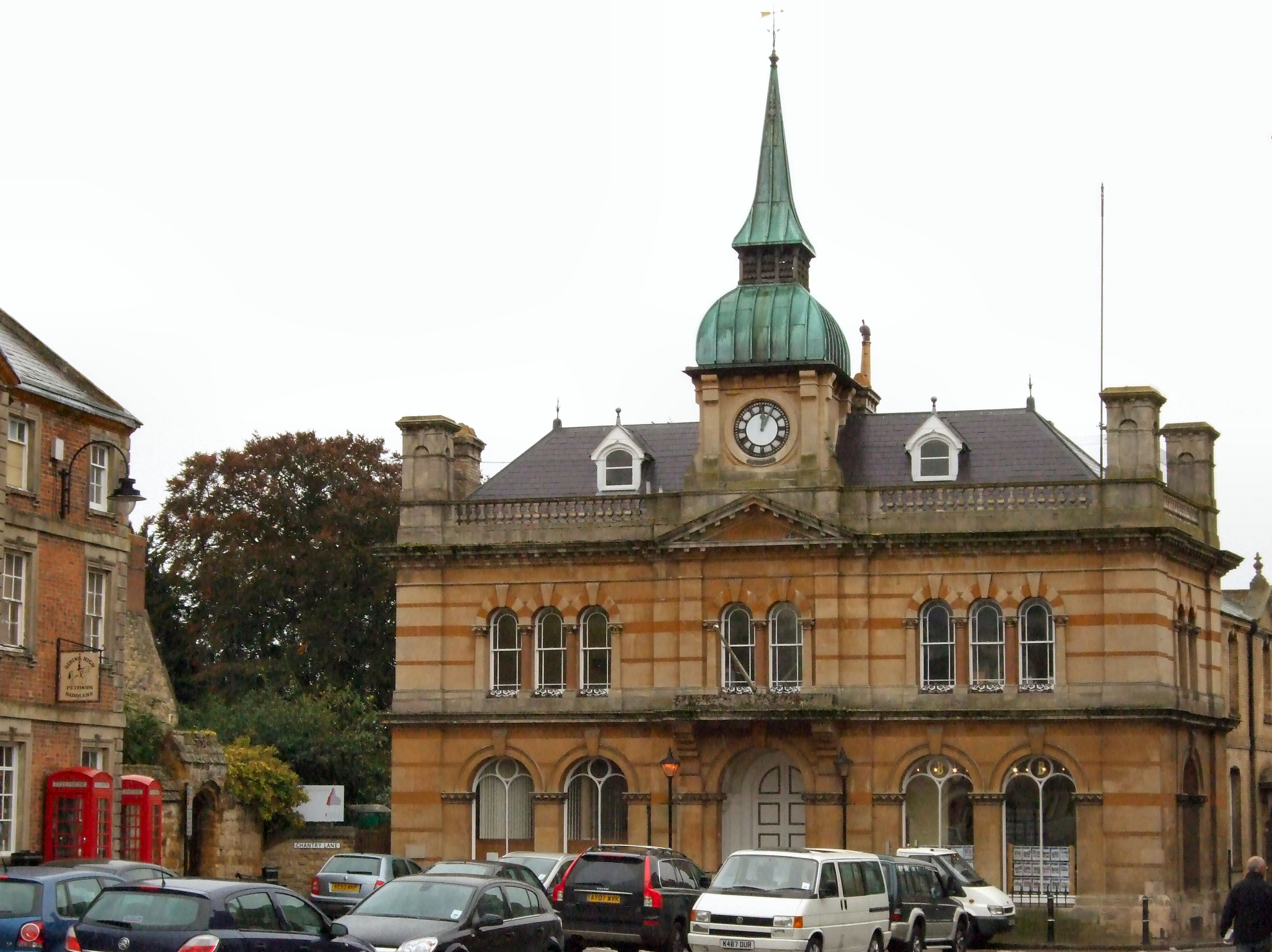 The Old Town Hall, Towcester, Northamptonshire